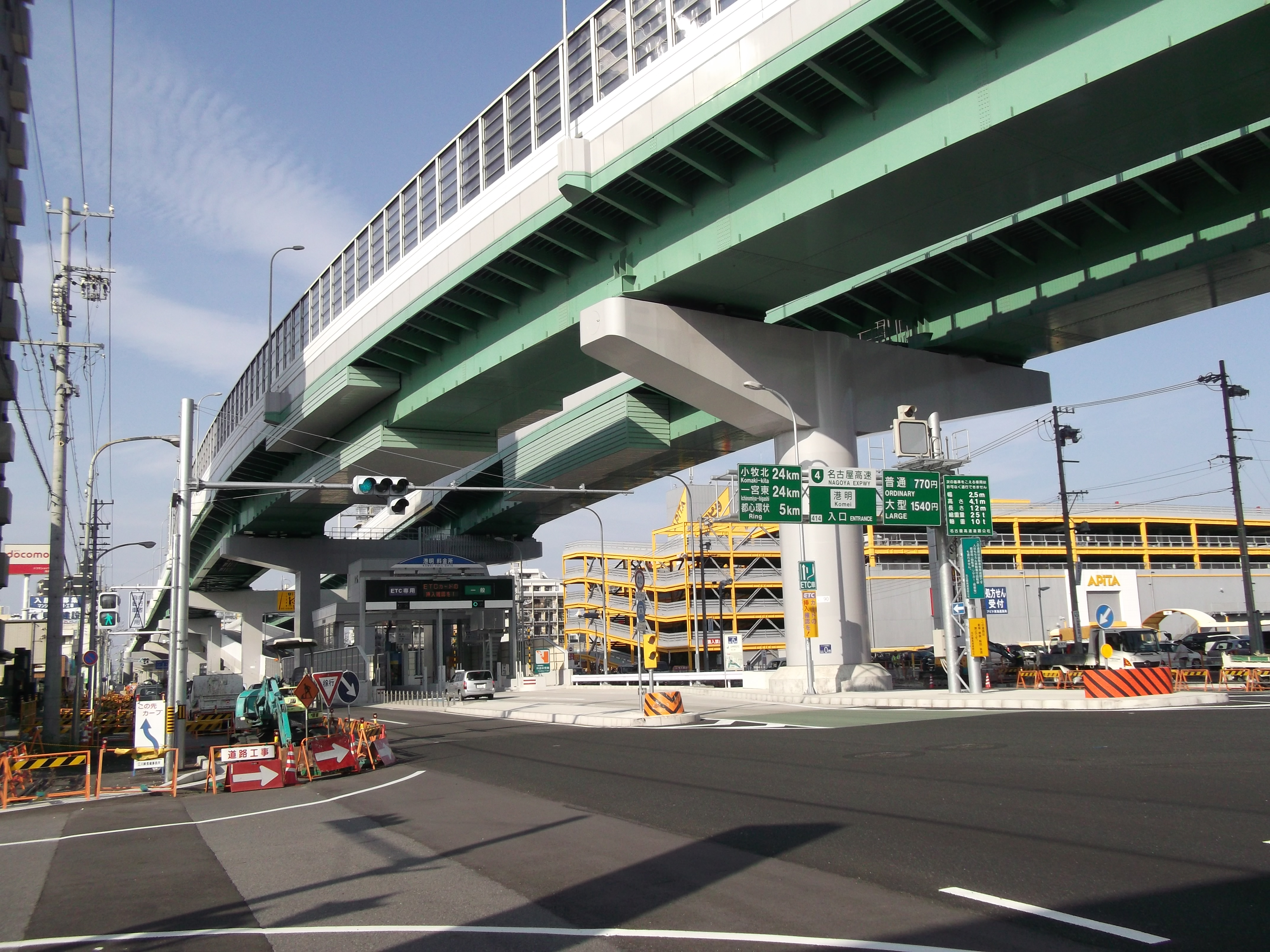 Komei Interchange on the Nagoya Expressway Route 4 in Minato-ku, Nagoya City